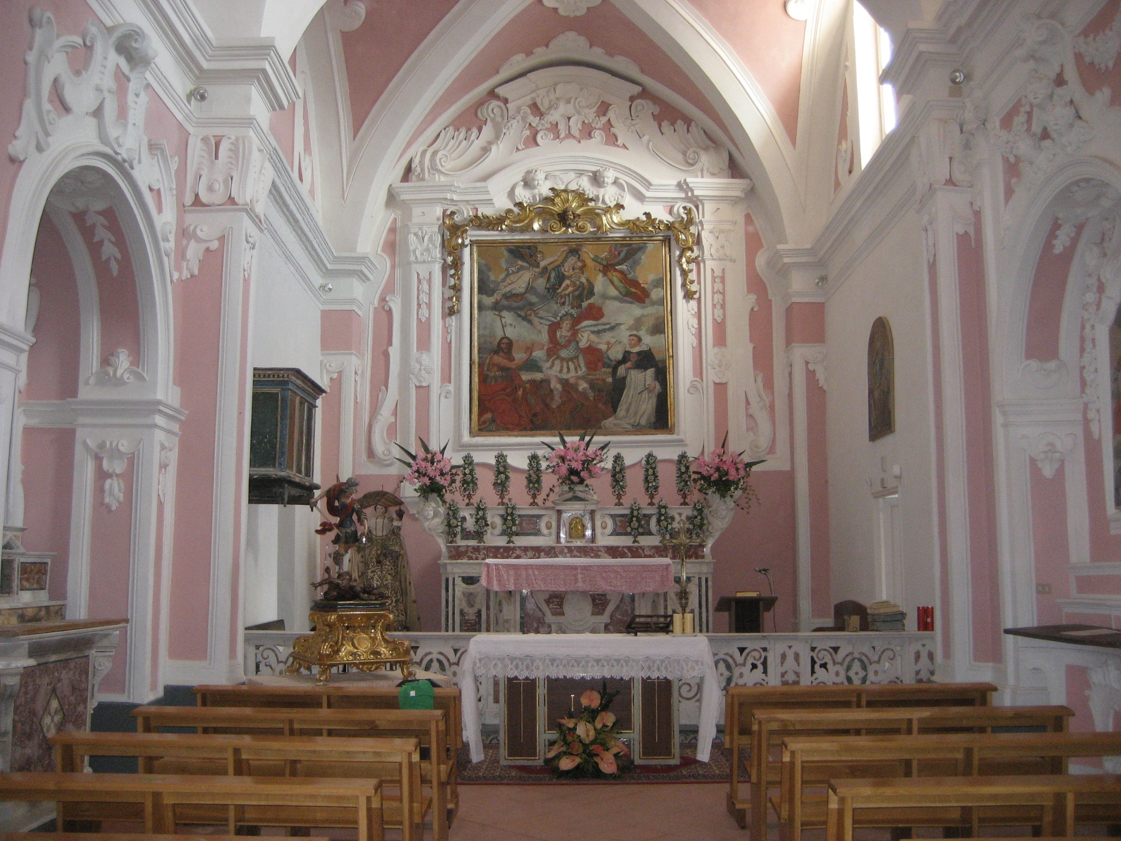 Church of Saint Michael - Conca dei Marini